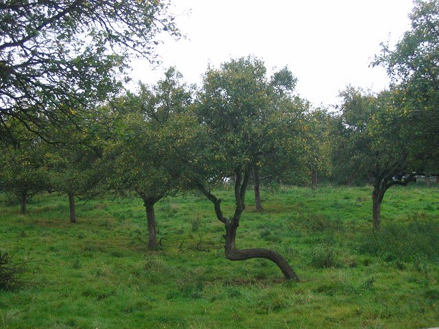 Damson orchard, Ashford Bowdler. Beside the busy A49, a damson orchard beside a farm shop at Meadowside, near the Skew Bridge.